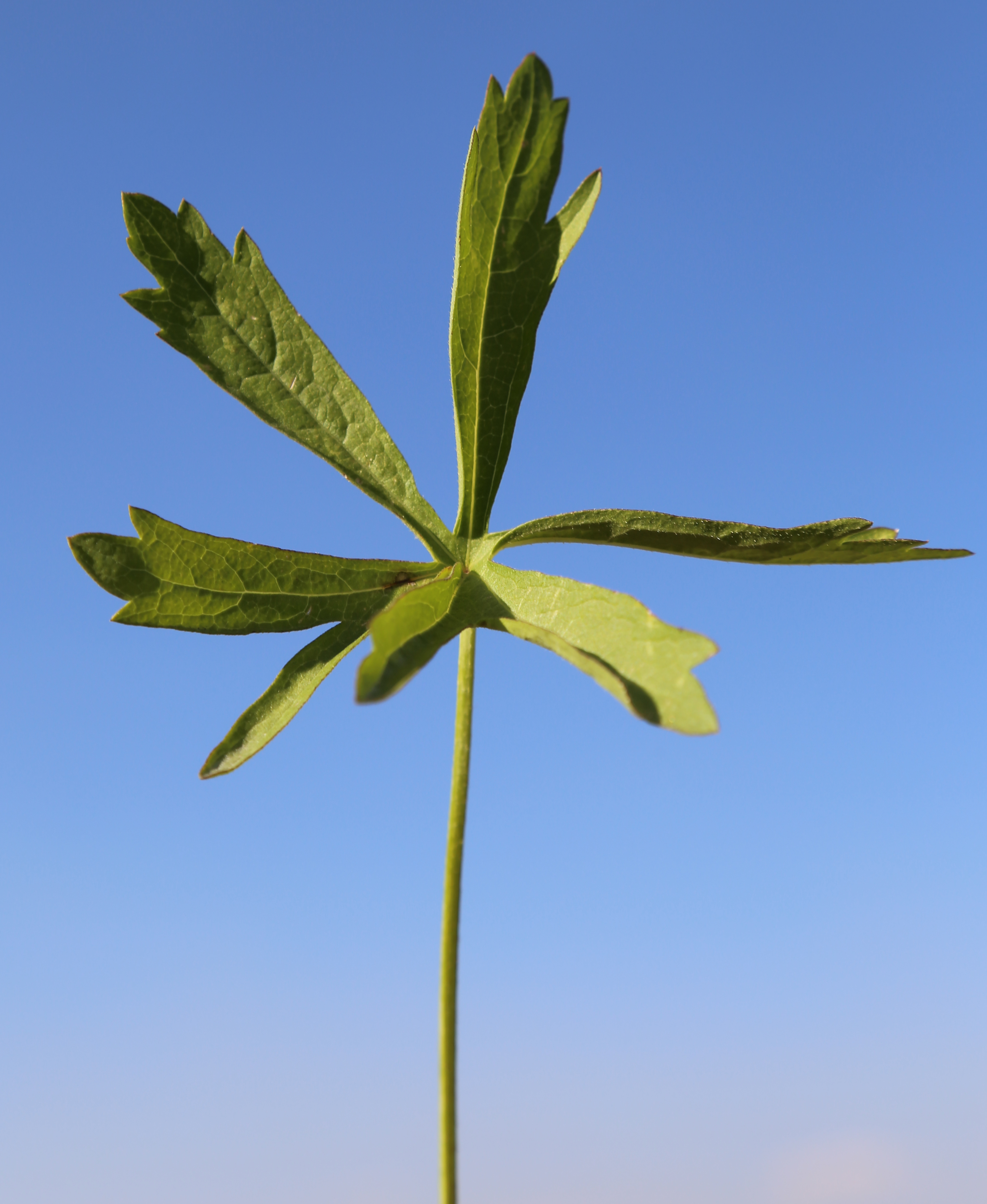 Spicate Oregon checker-mallow (Sidalcea oregona, ssp. spicata), leaf with 7 deeply palmate lobes and a long petiole. At the Piute Pass trailhead (9,500 ft (2,900 m)), John Muir Wilderness, Sierra Nevada, California.